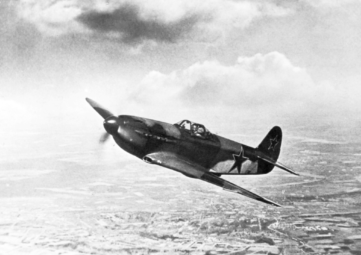 Title: Yakolev, Yak-3 Notes: USSR Catalog #: 01_00089805 Manufacturer: Yakolev Designation: Yak-3 Repository: San Diego Air and Space Museum Archive Tags: Yakolev, Yak-3, USSR